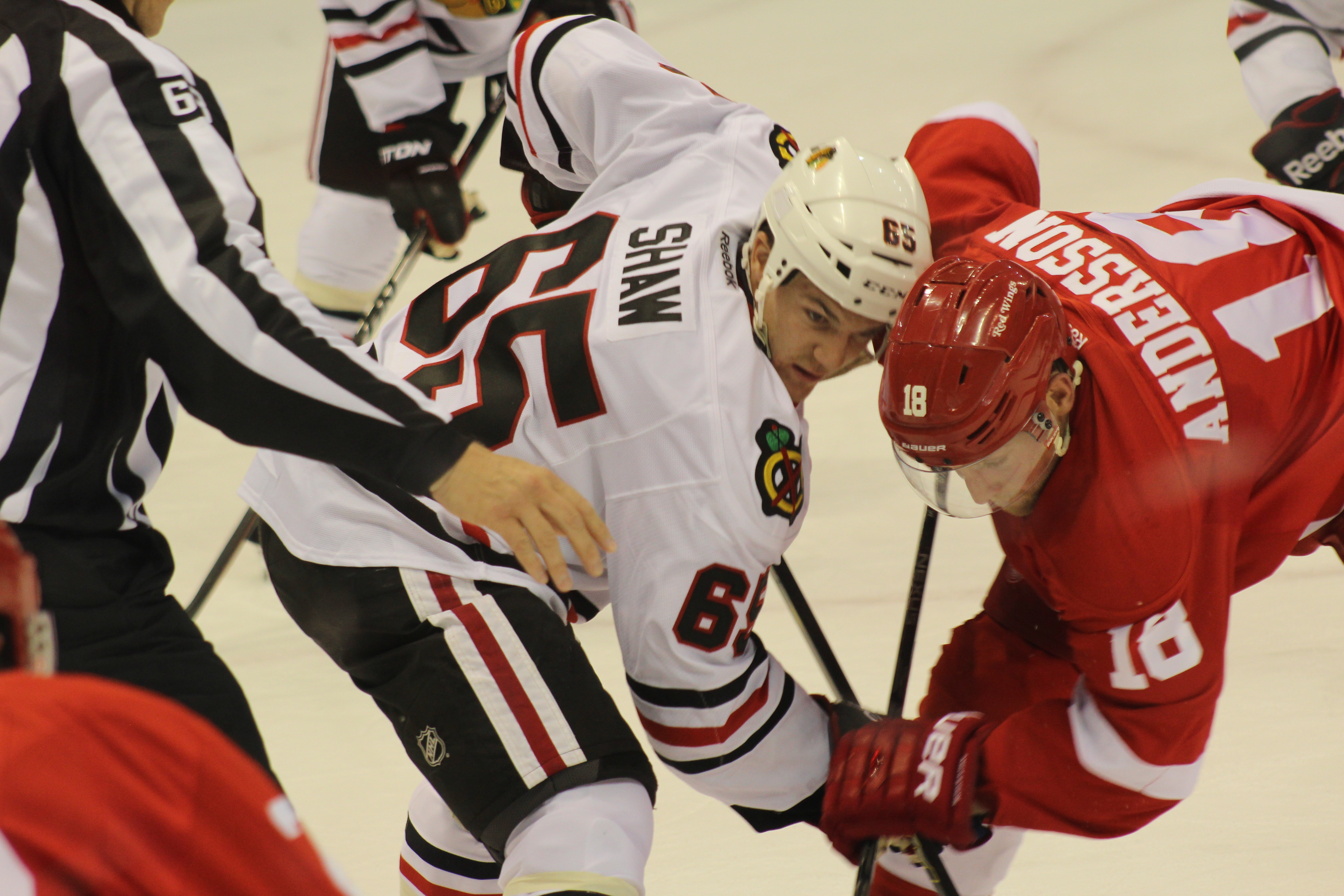 Andrew Shaw (Left) tries to win a face-off against the Detroit Red Wings. Photo taken Taken on September 25, 2014.